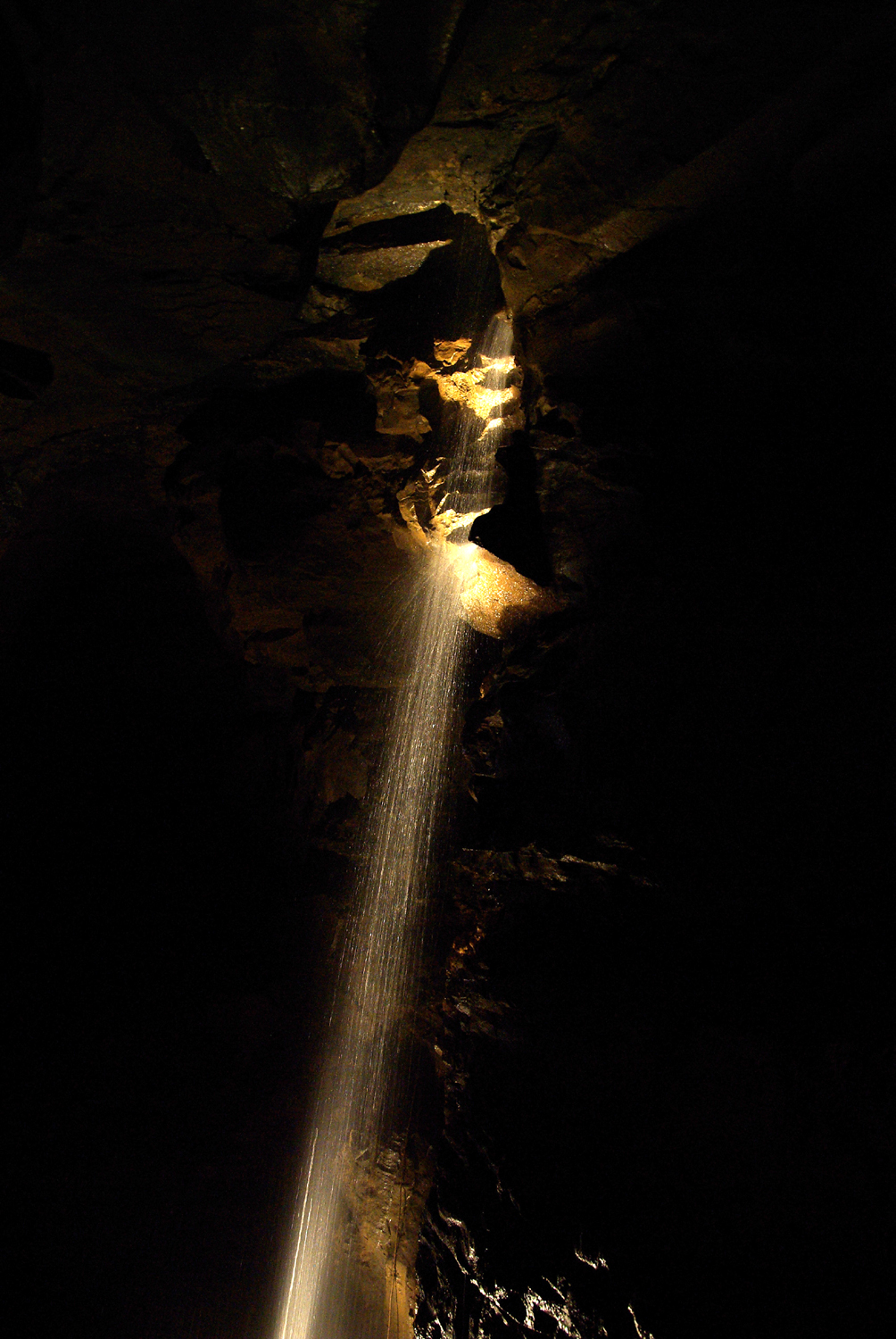 The waterfall inside Aillwee Cave in Ireland